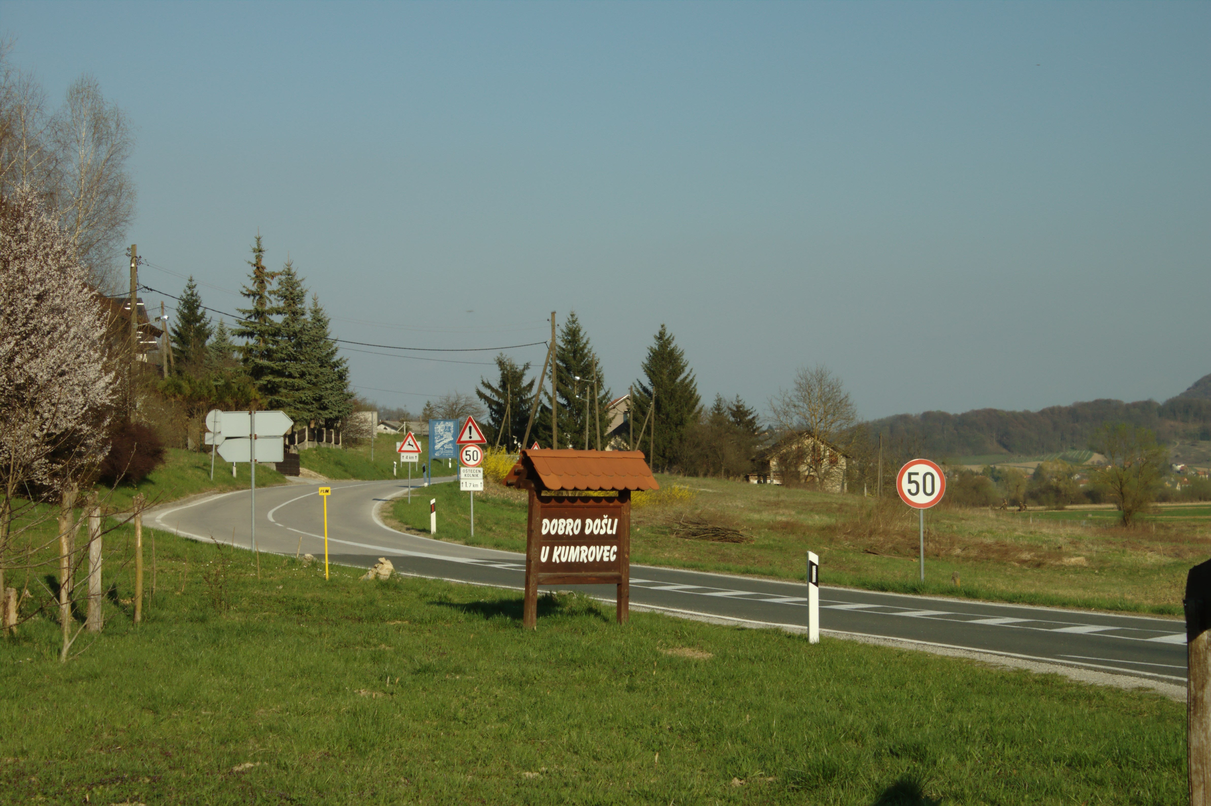 Arrival to the town of Kumrovec from the local train station